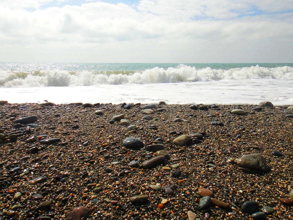 Dagomys beash after the storm, Sochi